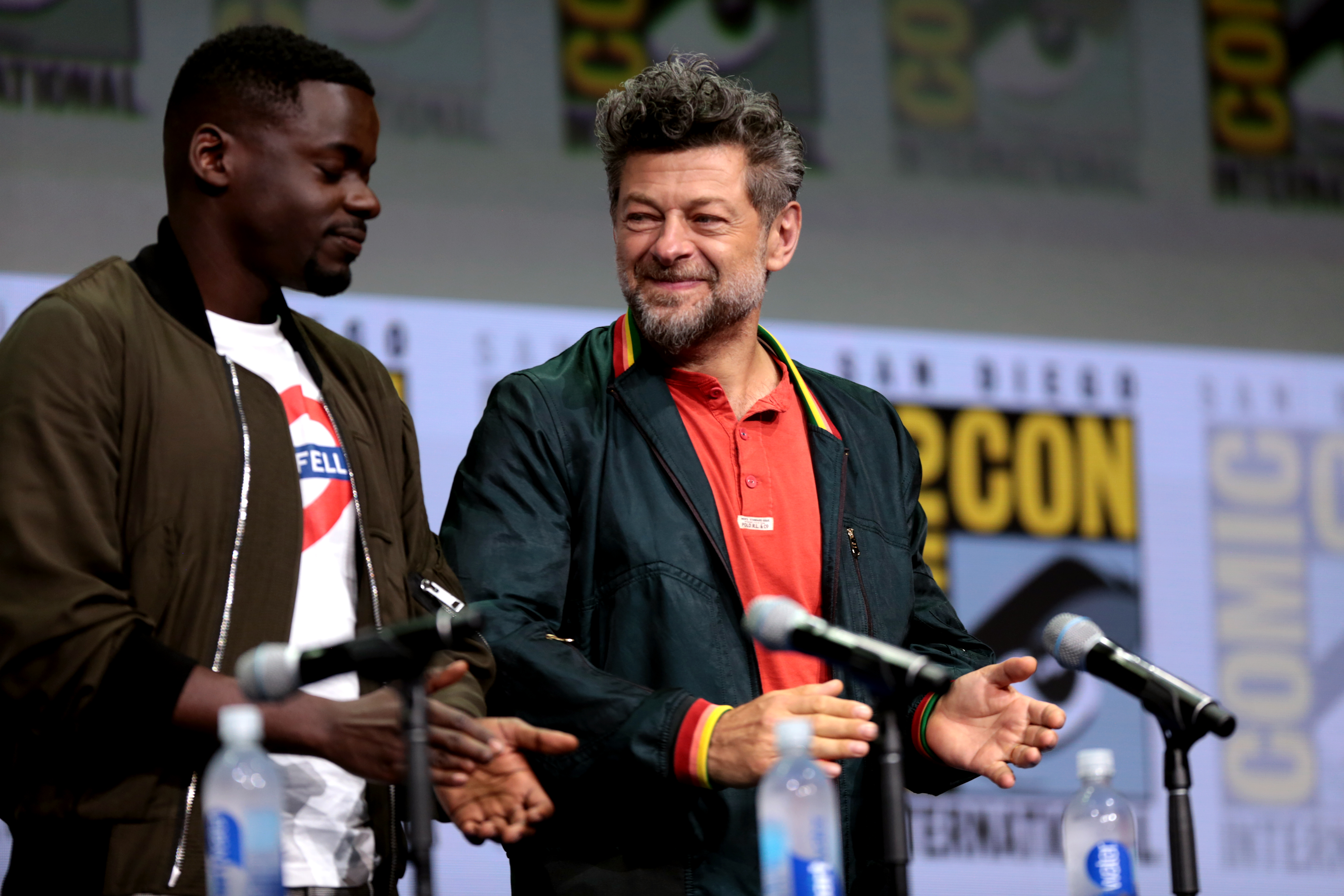 Daniel Kaluuya and Andy Serkis speaking at the 2017 San Diego Comic Con International, for "Black Panther", at the San Diego Convention Center in San Diego, California.